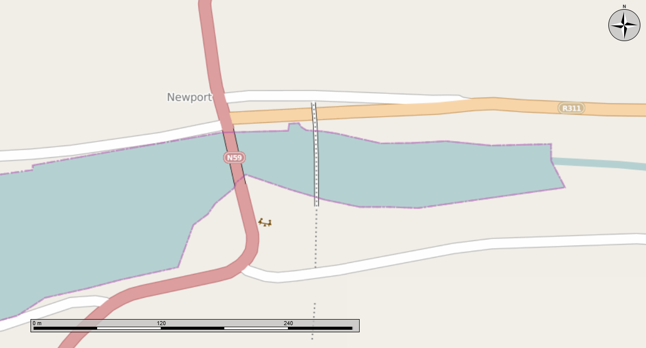 Seven Arches Bridge, preserved trail in County Mayo, Ireland. Open Street Map overlay from the Marble program.